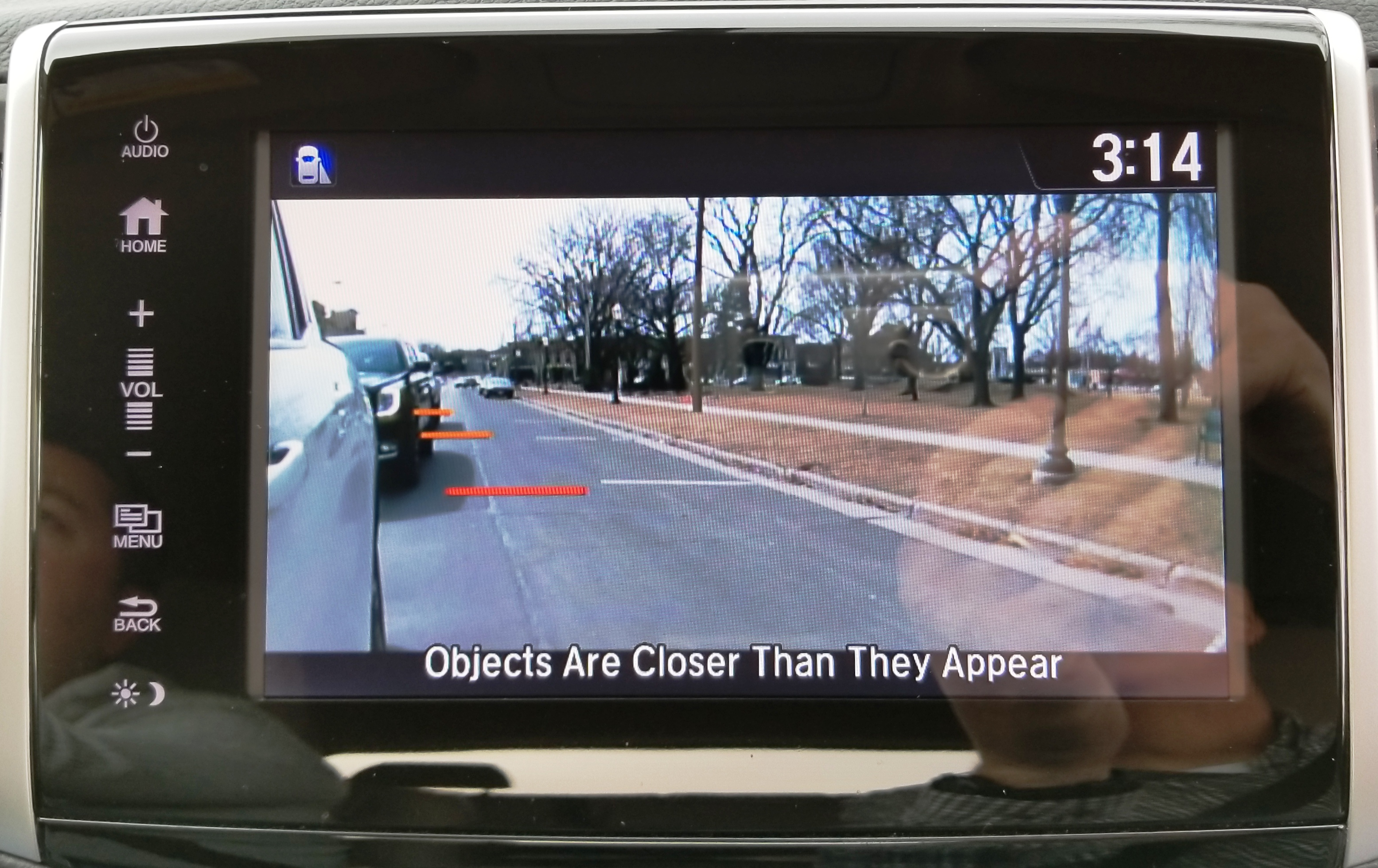 Image of the 2018 US Honda Ridgeline RTL-T LaneWatch display in the eight-inch infotainment touchscreen